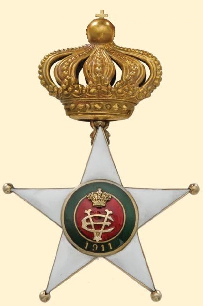 Italy Order of colonial merit